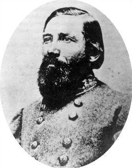 Cullen A. Battle, CSA. Found on HyperText Transfer Protocol